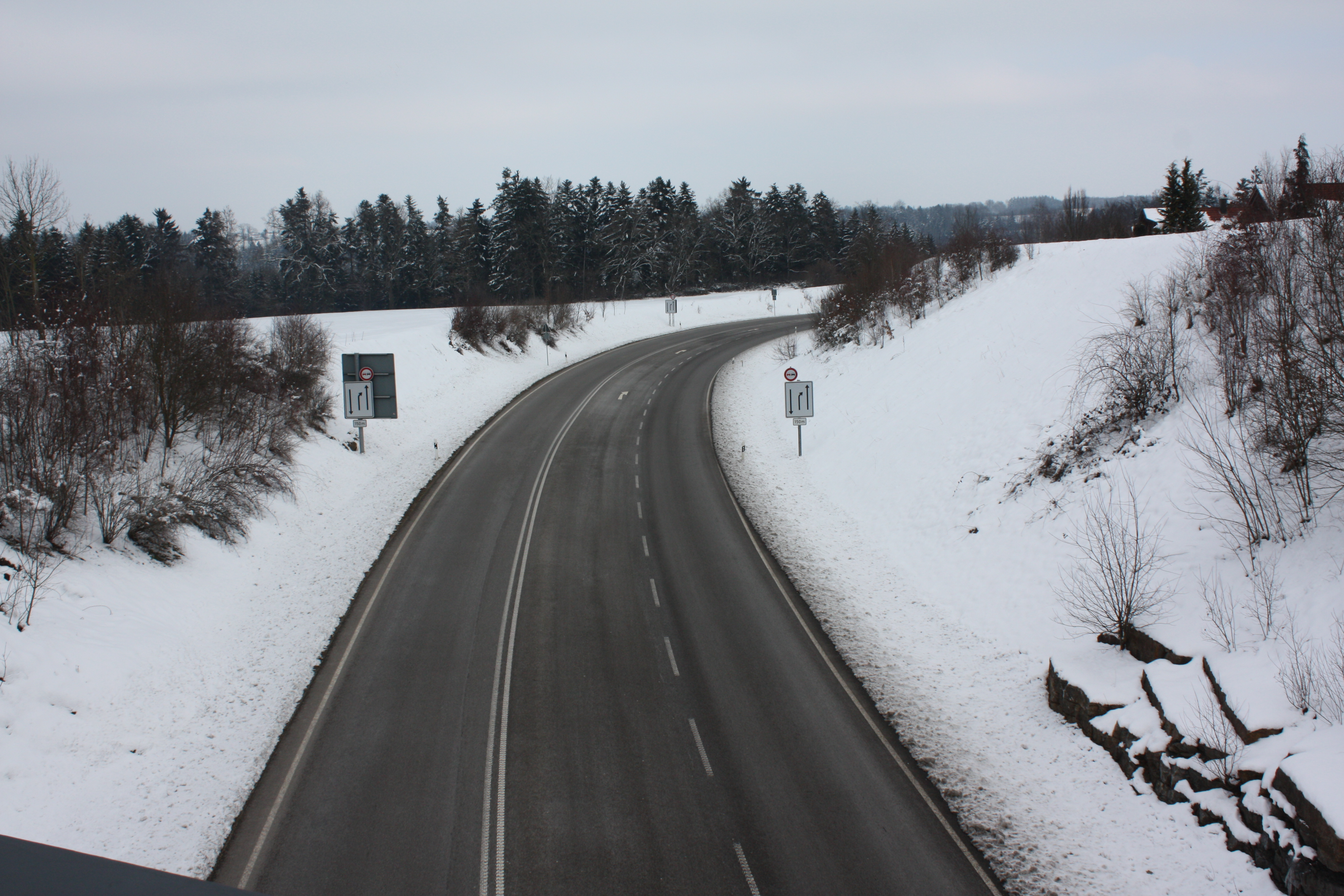 Bundesstrasse 298 near Mutlangen und Rehnenhof-Wetzgau (part of Schwäbisch Gmünd) in Germany